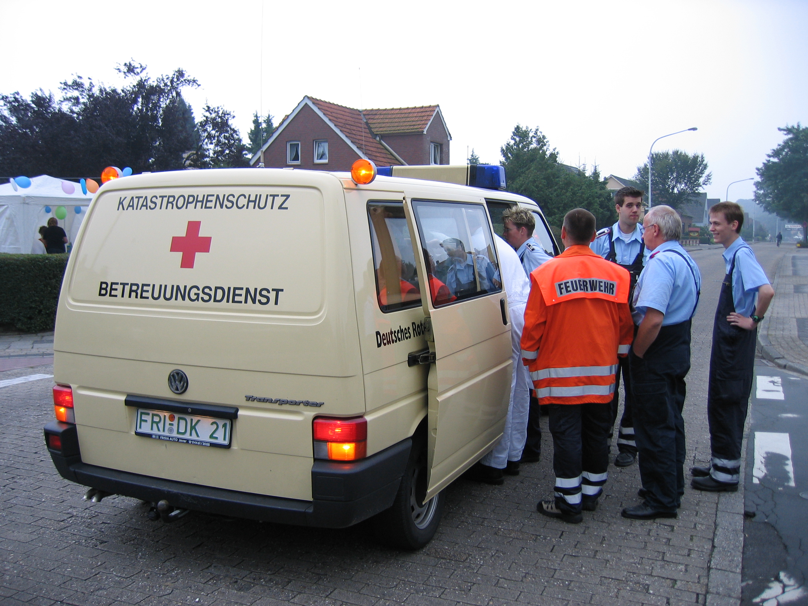 Vehicle of the "Betreuungsdienst" of the german red cross handing out food to some volunteers